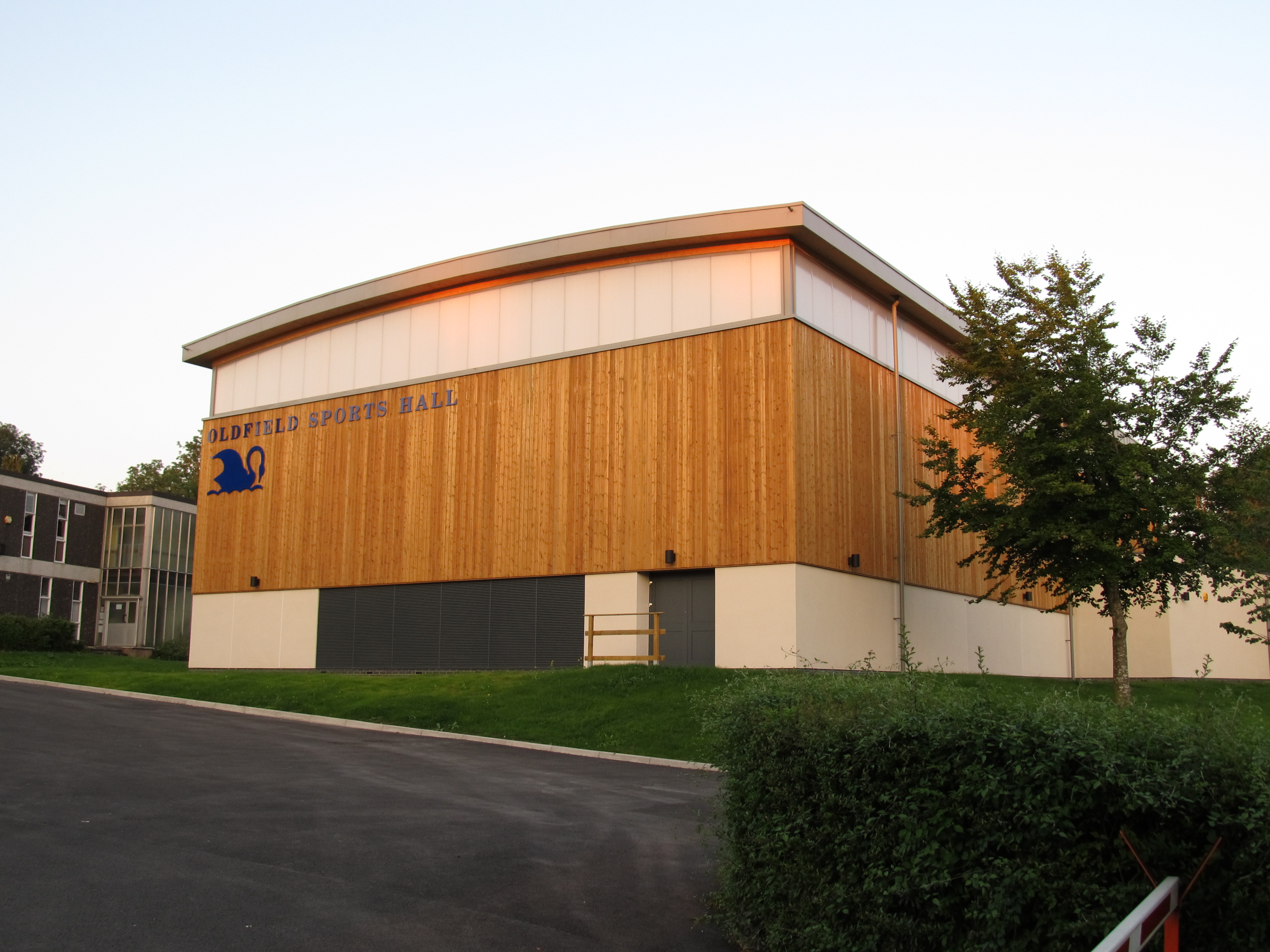 Oldfield School, Newbridge, Bath, new sports hall built in 2012.